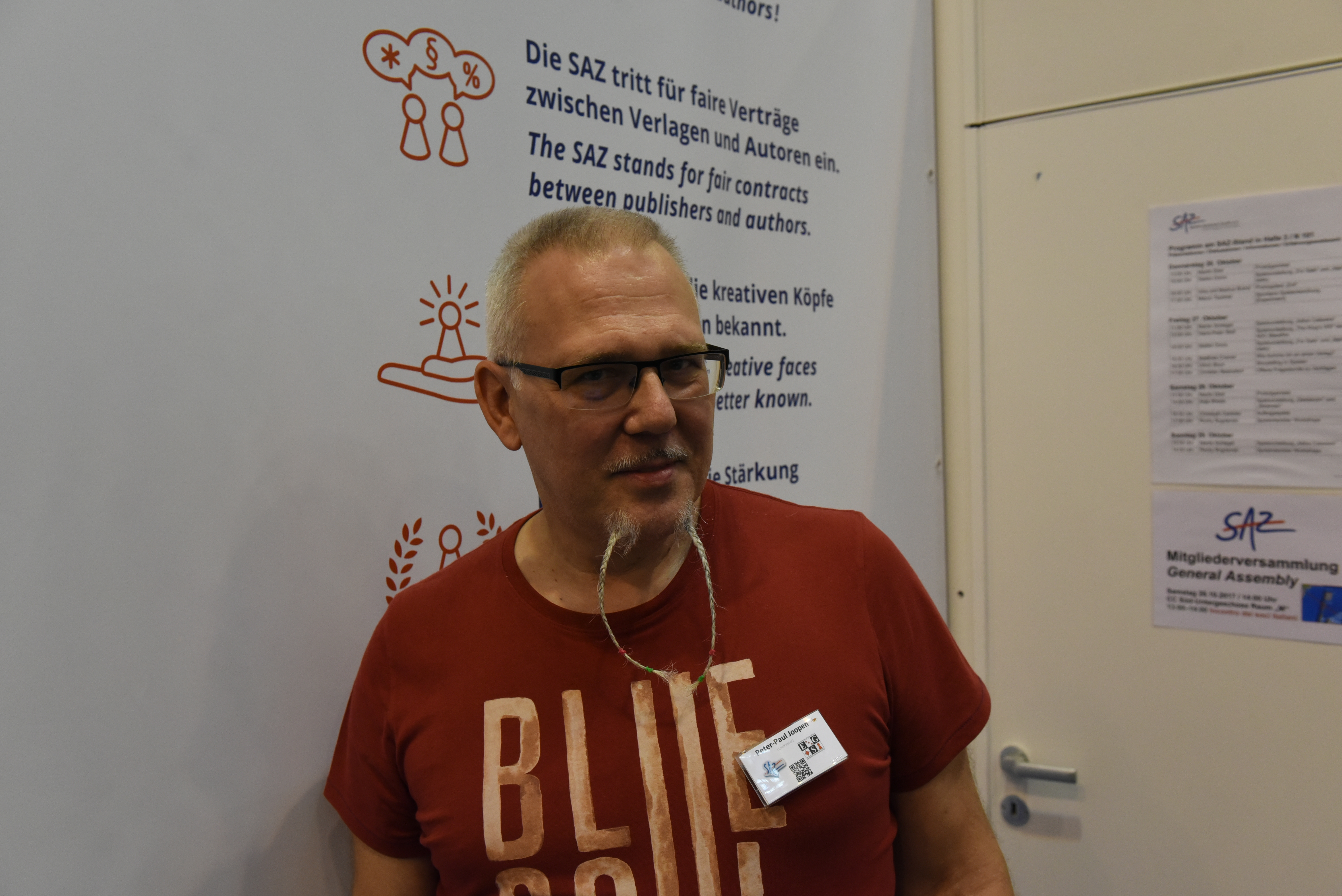 The game author Peter-Paul Joopen at the board game fair Spiel '17 in Essen, Germany.